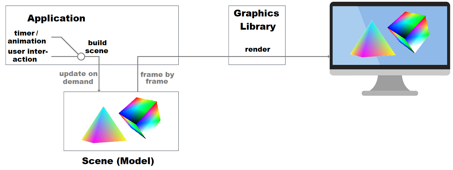 An Immediate-Mode Graphics API, unlike Retail-Mode Graphics API, does not store the scene (model) itself - it is stored within the application.